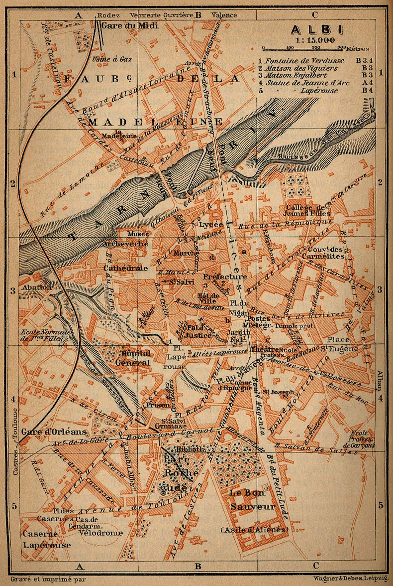 Map of Albi, France, 1914